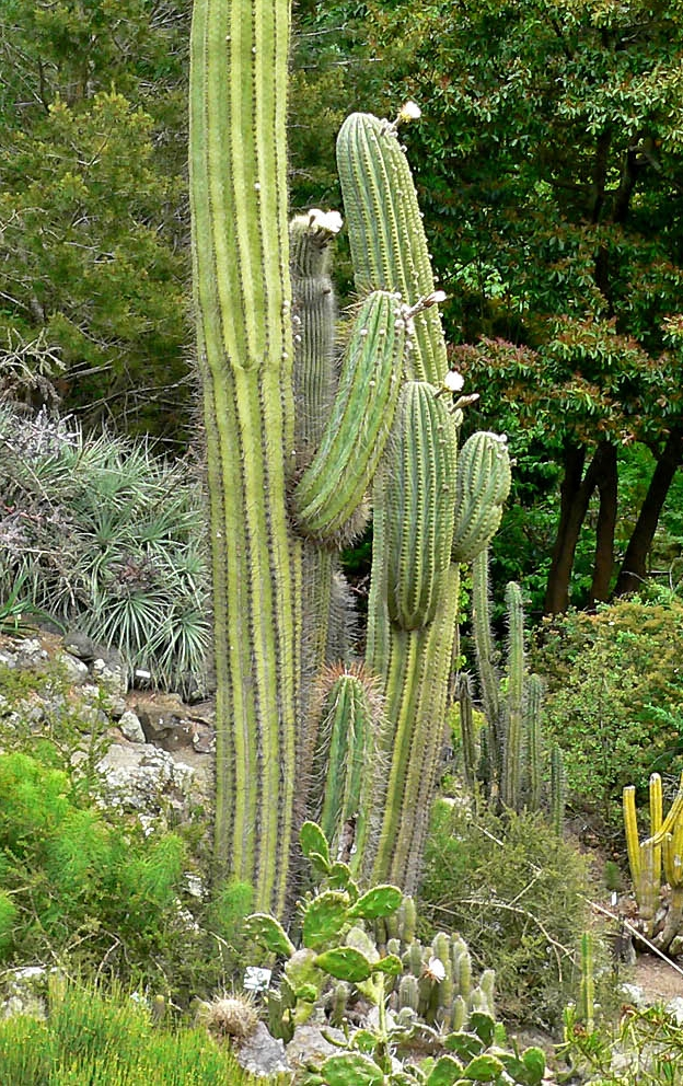 Cropped version -- photo of Echinopsis terscheckii at the University of California Botanical Garden, taken June 2006 by User:Stan Shebs